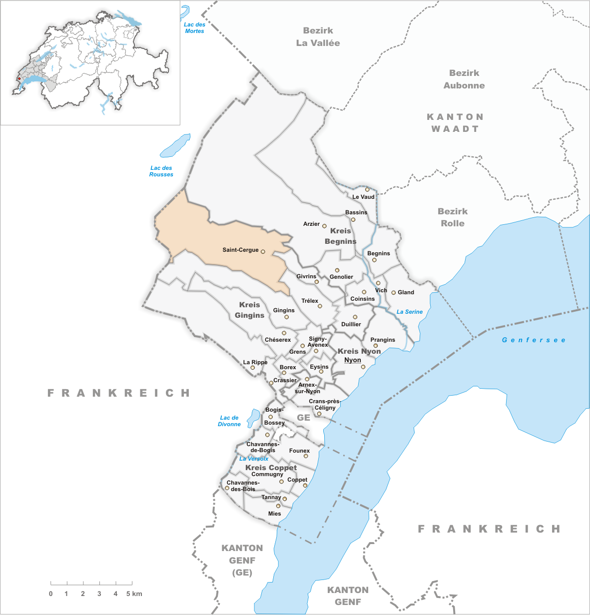 Municipality Saint-Cergue